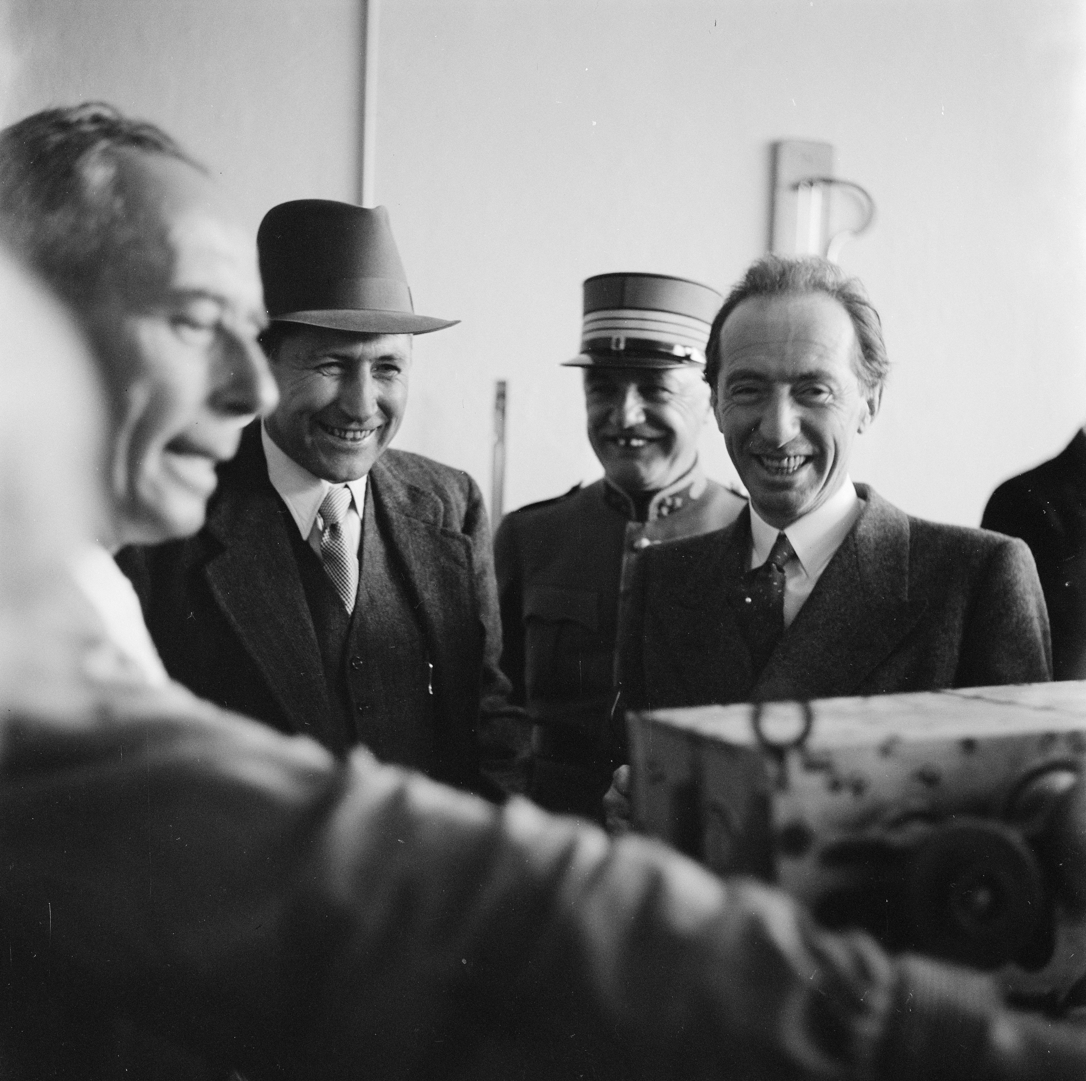 Enrico Celio (on the right) member of the Swiss government visiting Swissair in Dübendorf